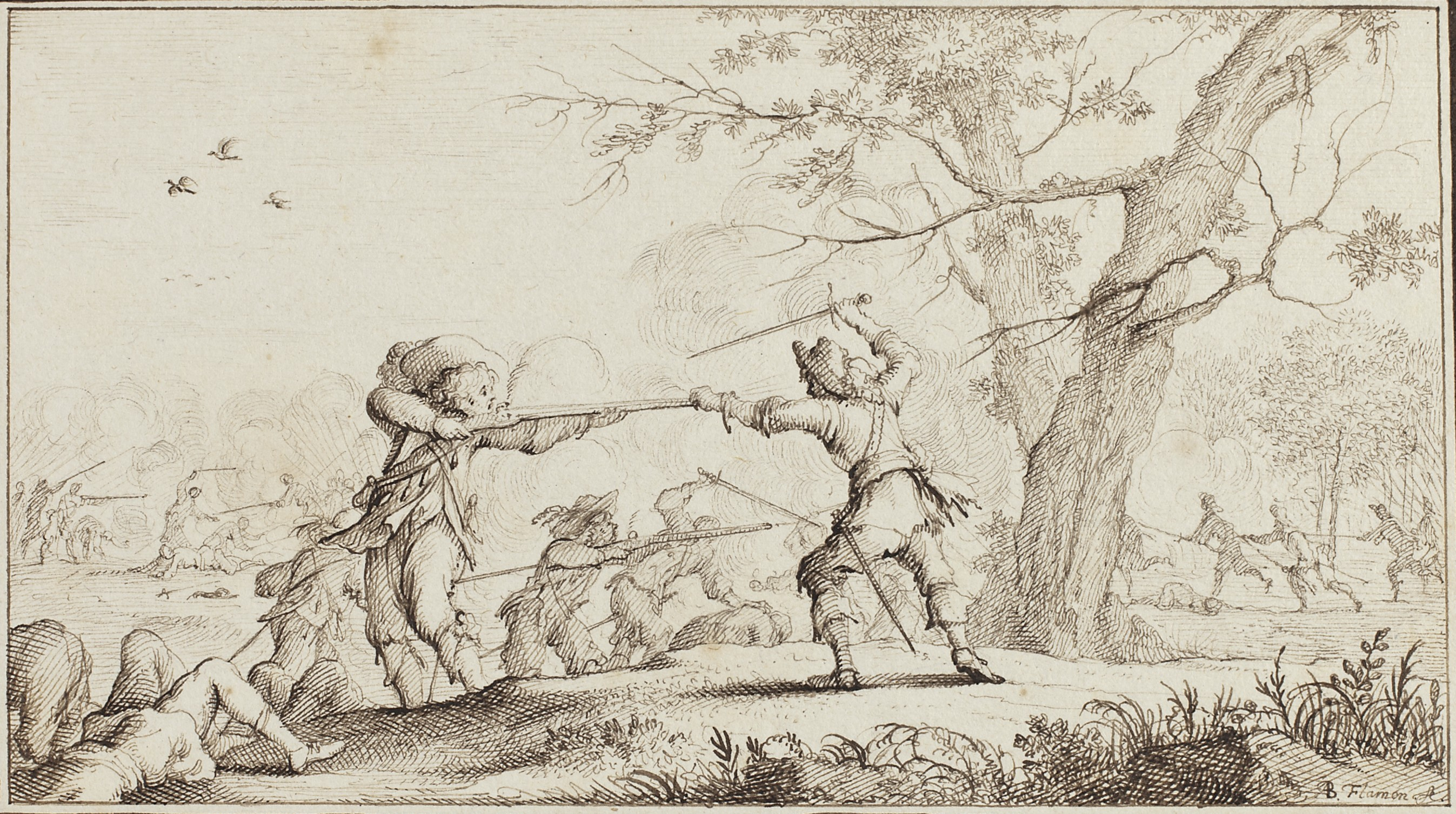 Note: For documentary purposes the original description has been retained. Factual corrections and alternative descriptions are encouraged separately from the original description.Tuschteckning föreställande fotsoldater i skogsterräng, 1648-1664. Nyckelord: Grafik, Krig, 1600-tal